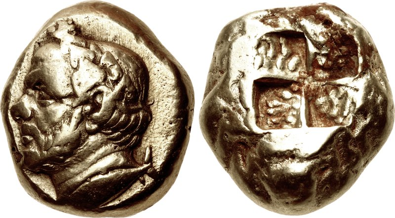 MYSIA, Kyzikos. Early–mid 4th centuries BC. Portrait of Timotheos